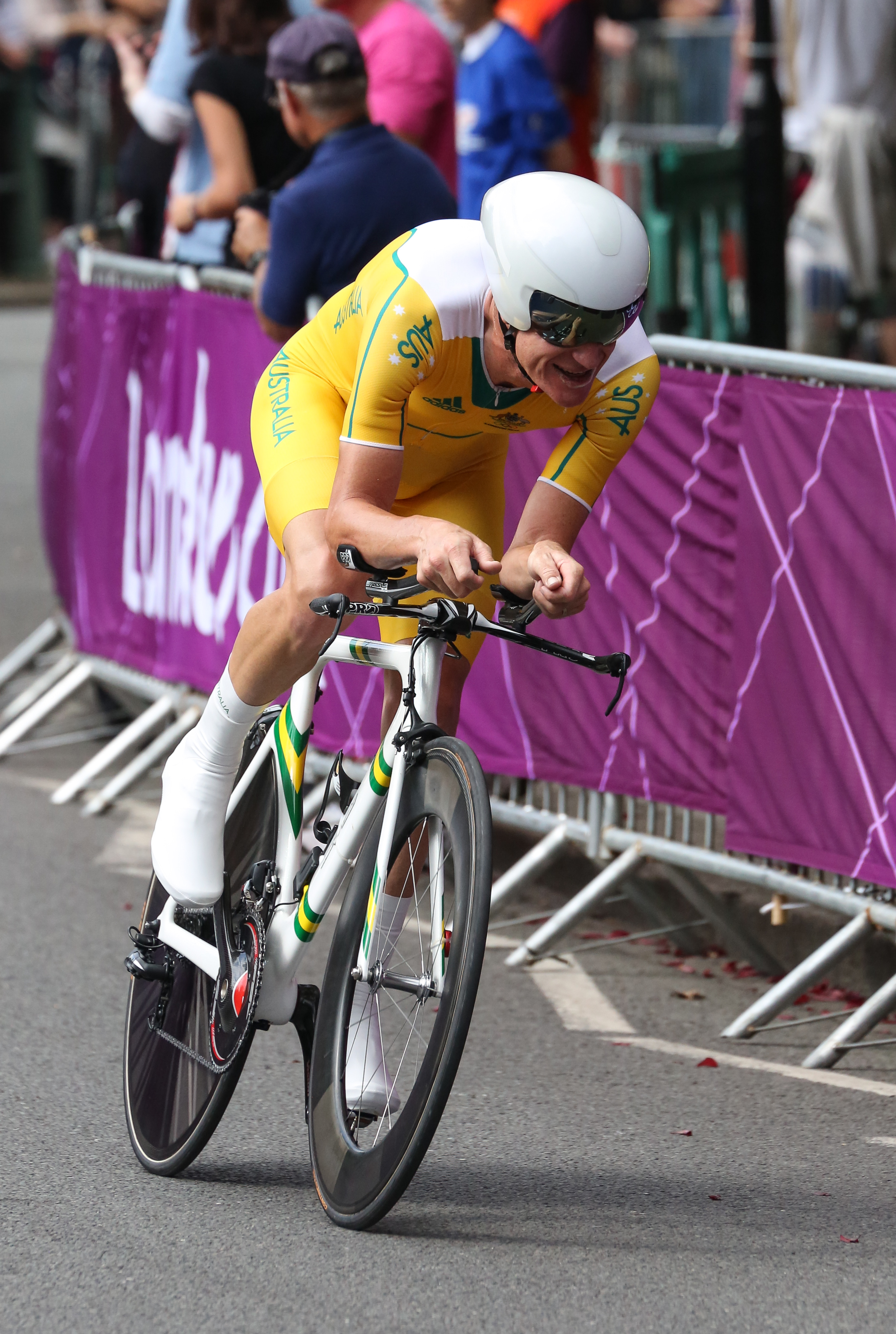 Michael Rogers competing in the London 2012 Men's Olympic Time Trial.